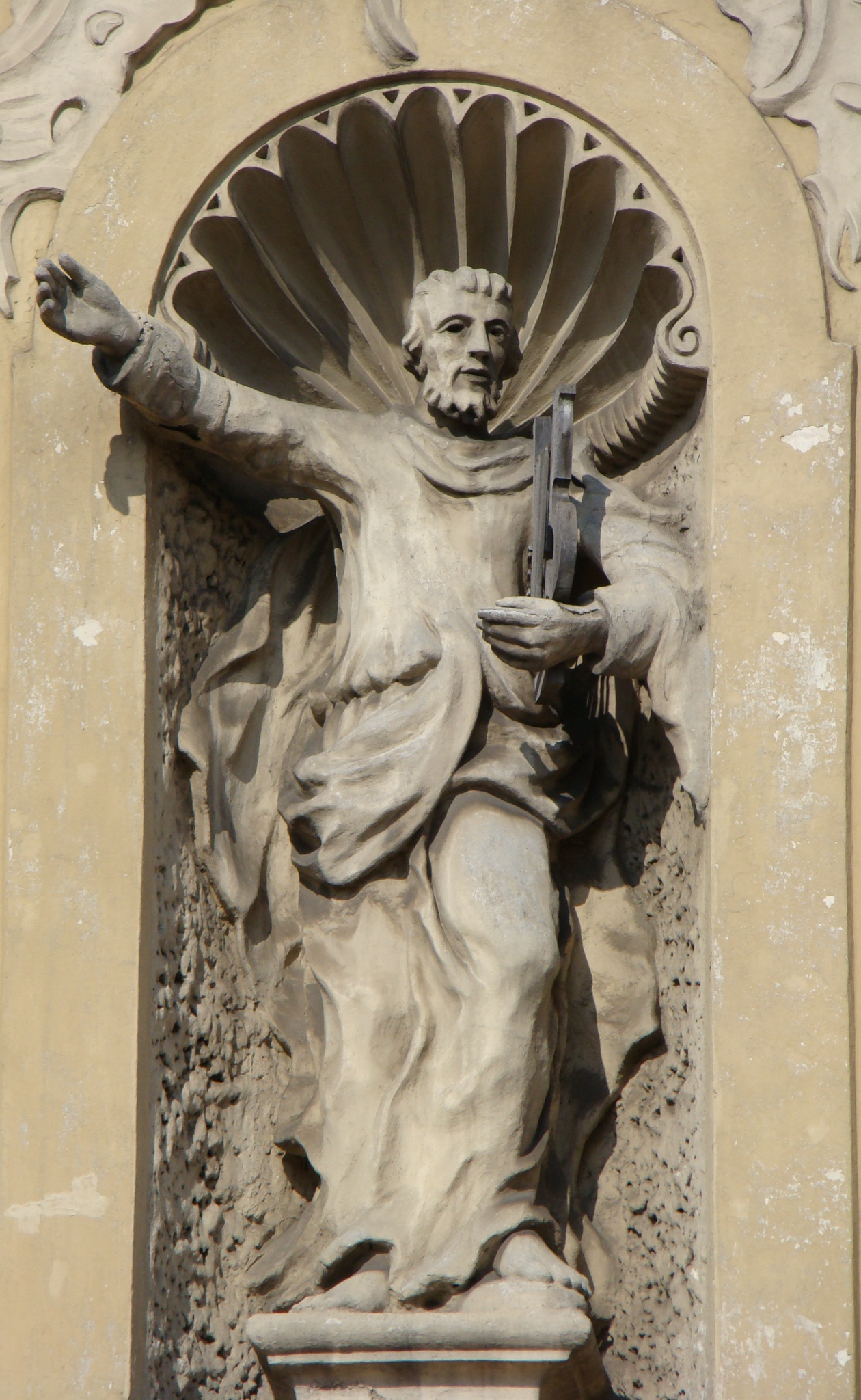 Statue of David, playing harp,in Missionaries Church. Vilnius. Lithuania.